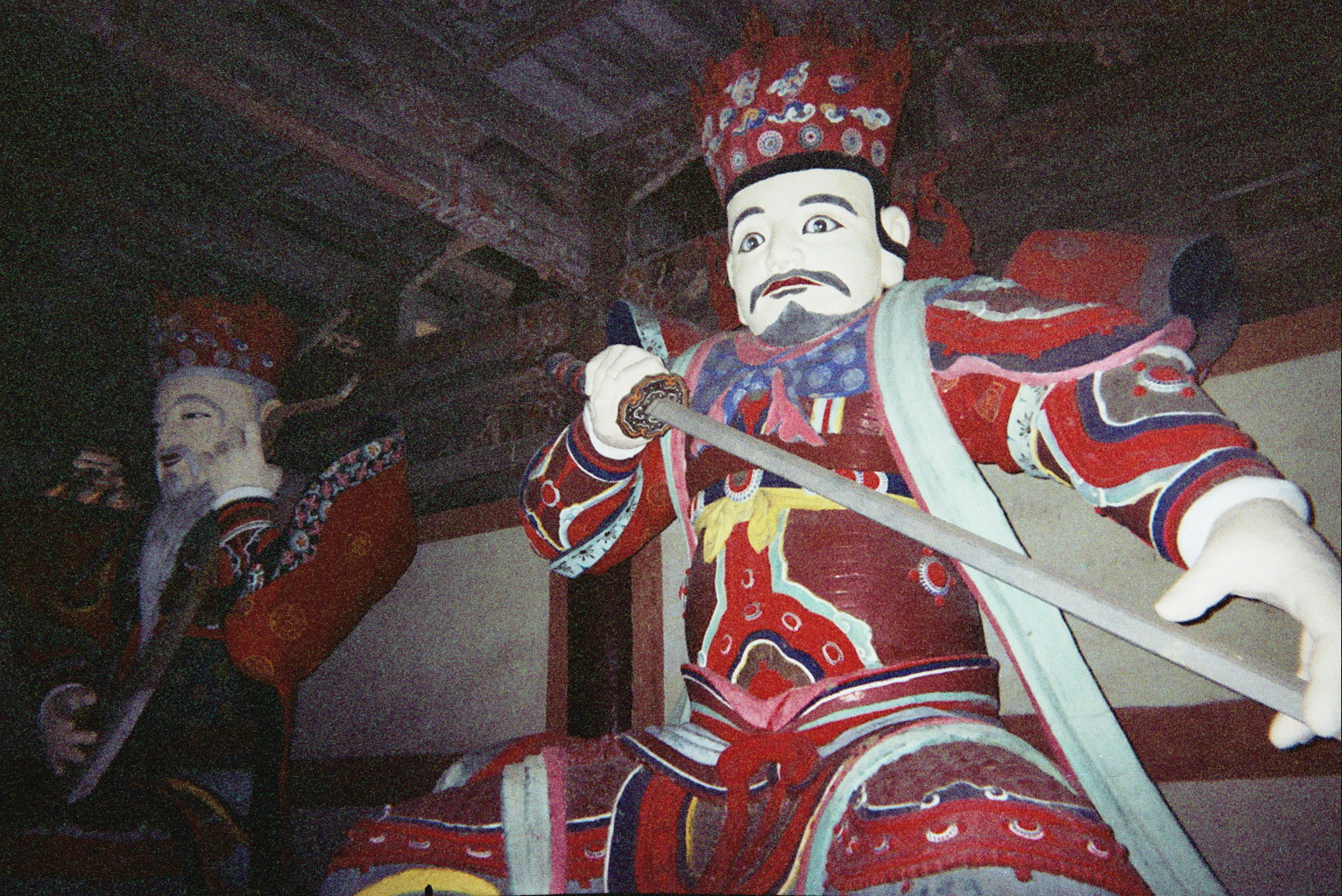 Sculptures at old Buddhist temple in DPRK (North Korea)